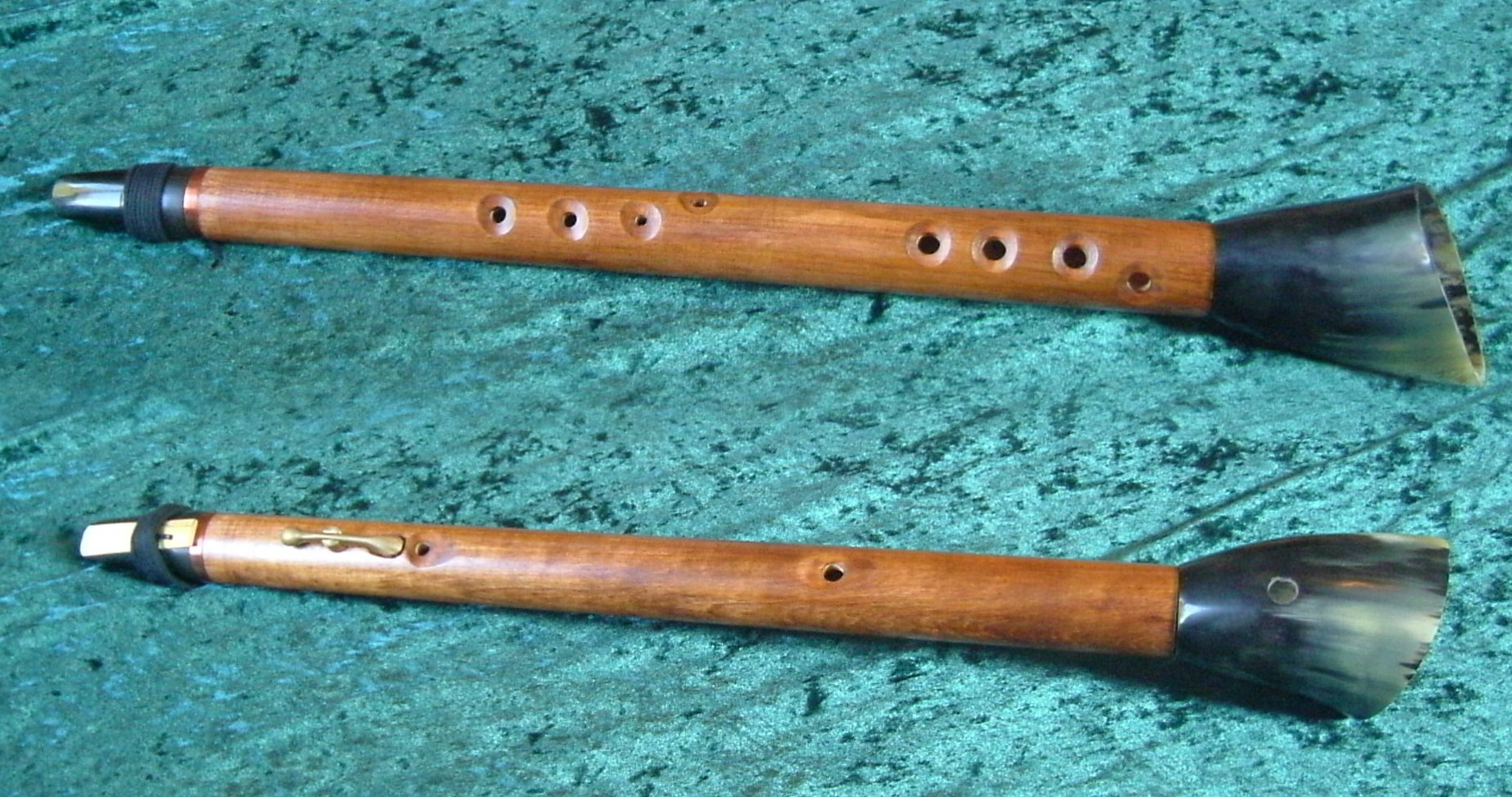 Lithuanian Birbyne (Treble/ Soprano), Windinstrument, Singlereed (made in 2008)